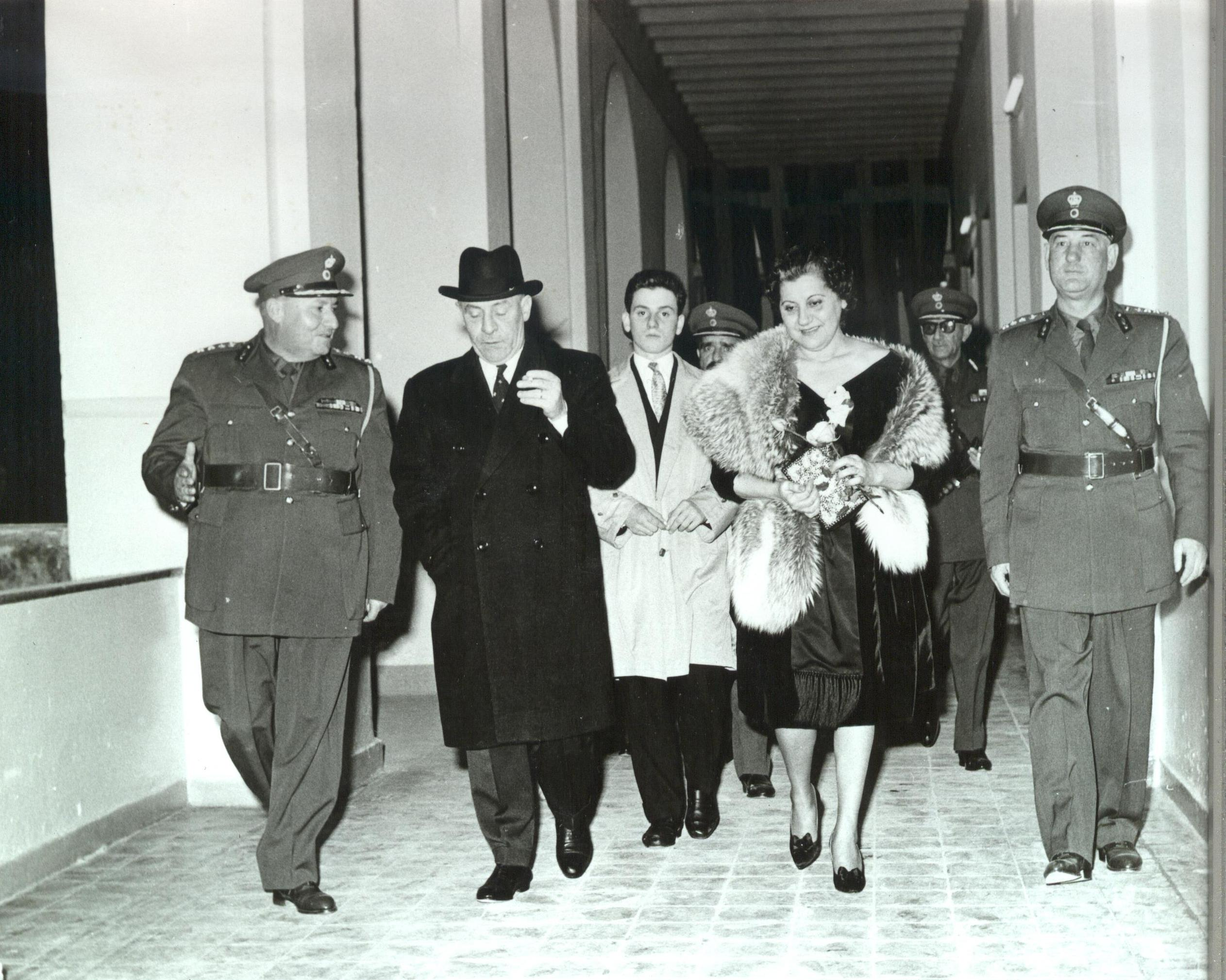 Greek singer and actress Sofia Vempo with Evangelos Kalantzis, at a reception of the Royal Gendarmerie.